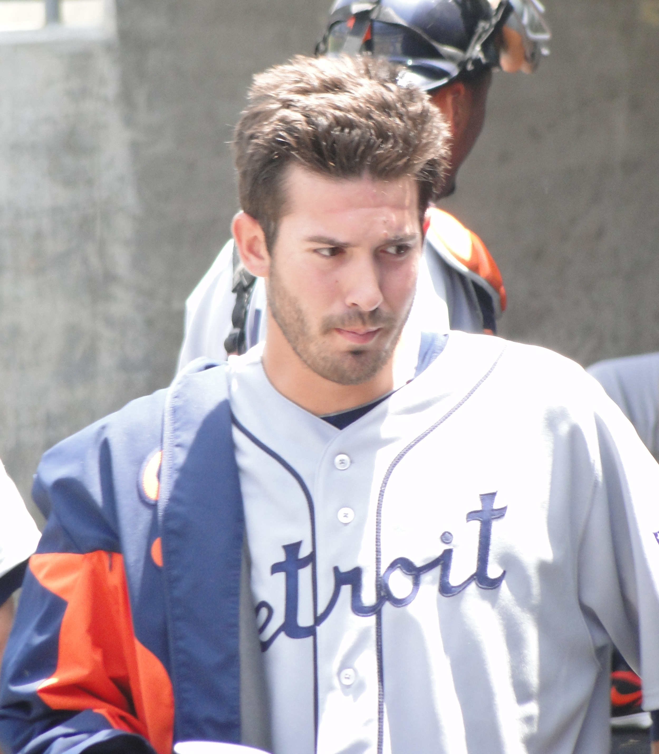 Rick Porcello at Dodger Stadium.